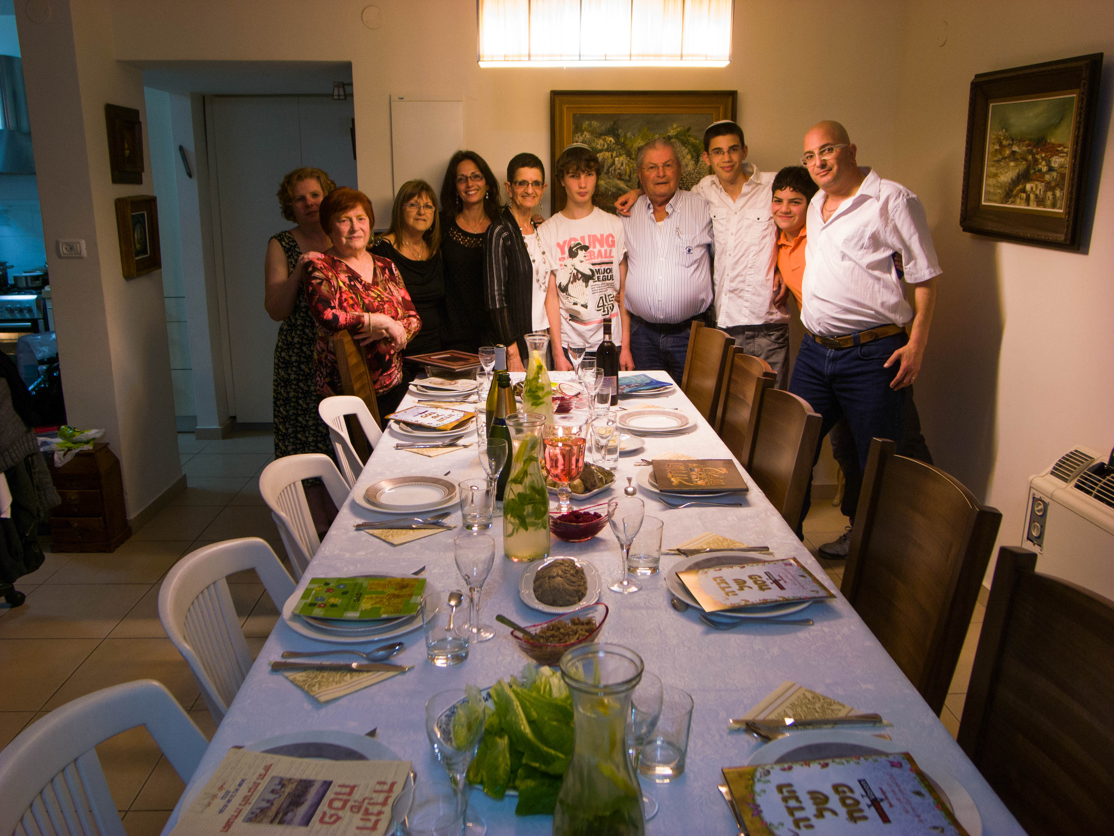 The whole family sit and read the Passover Haggadah